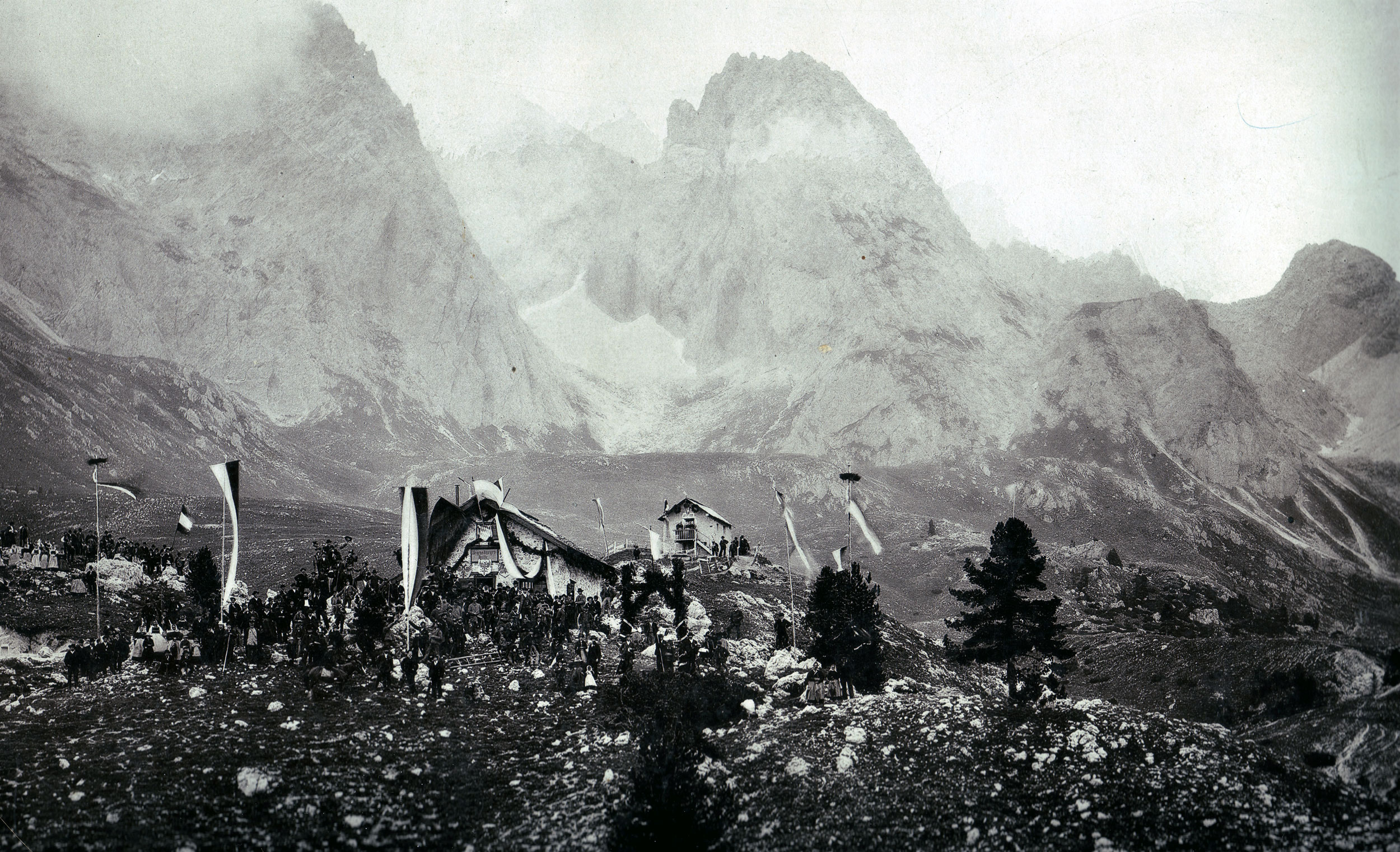 Inauguration of the Regensburger Hütte-Rifugio Firenze around 1885